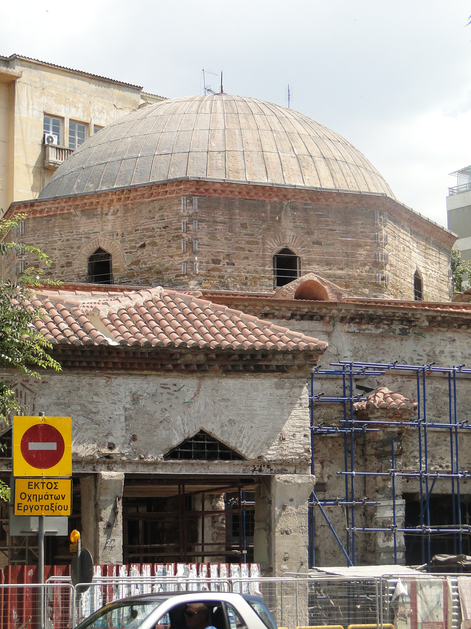 Hamza-Bey Mosque, Thessaloniki 2010.